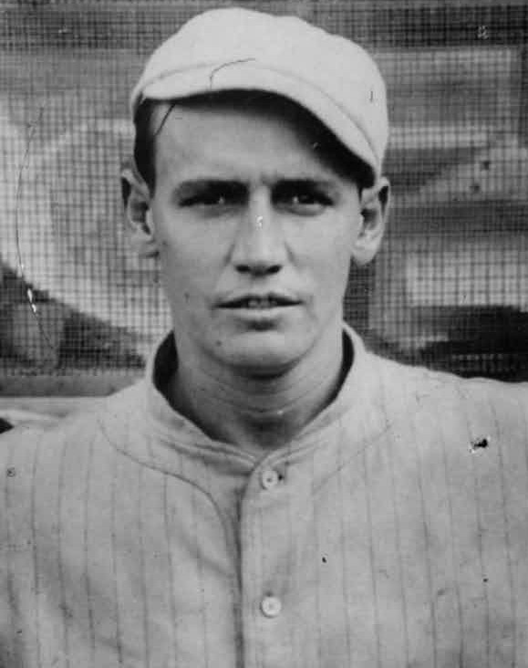 Professional baseball player Smoky Joe Wood